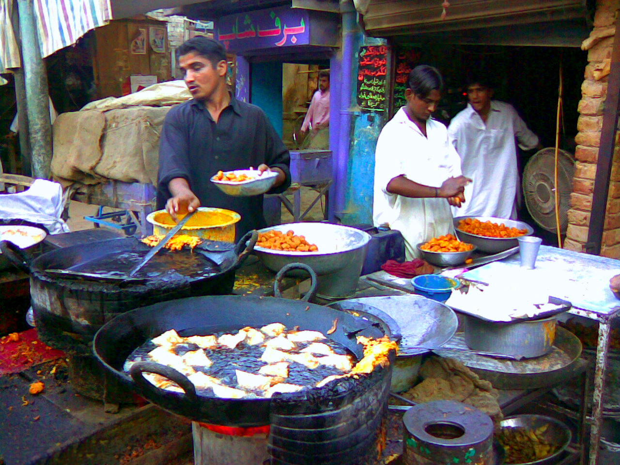 Famous samosa making in Shikarpur Pakistan